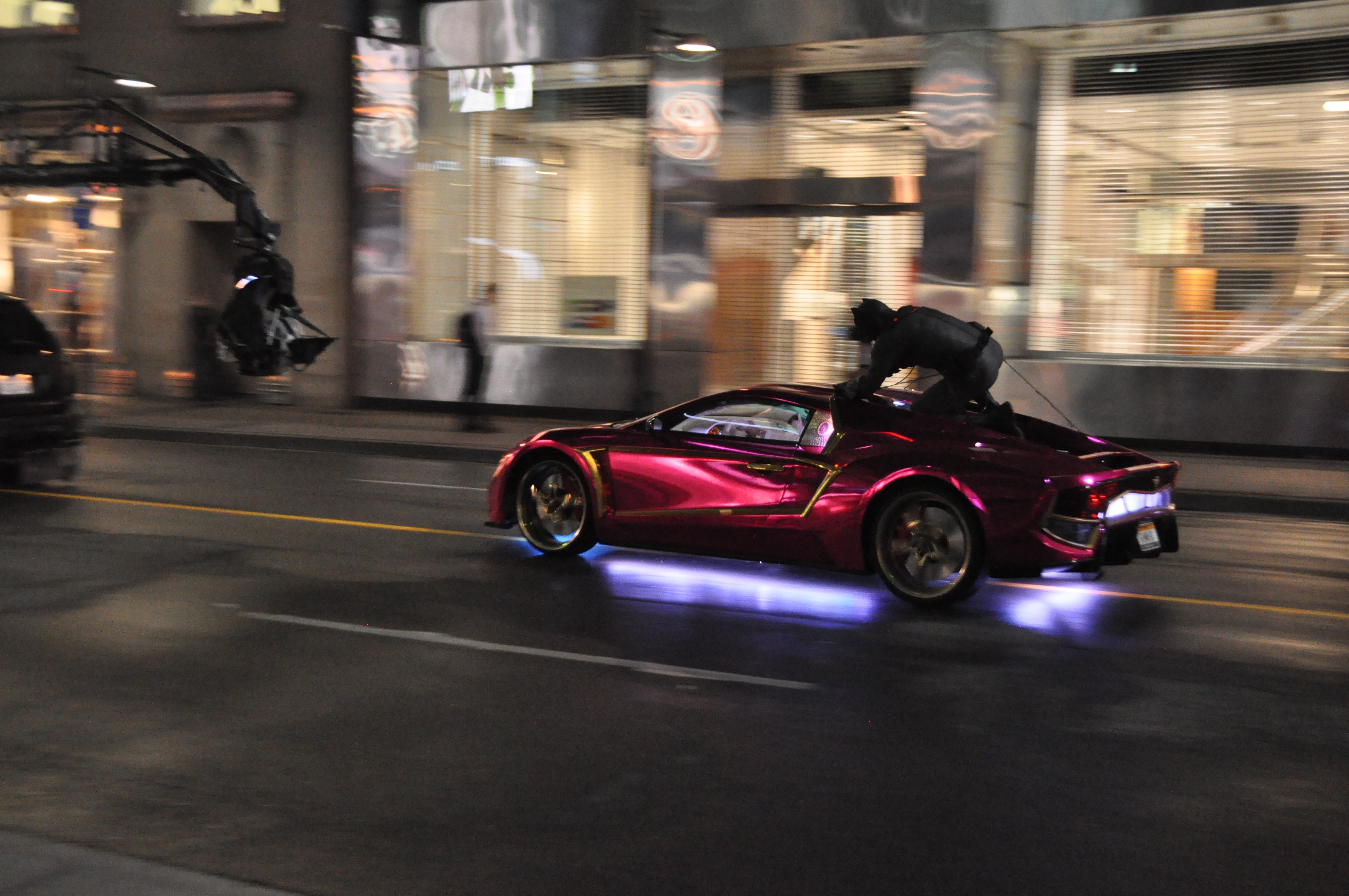 Suicide Squad filming in Toronto.